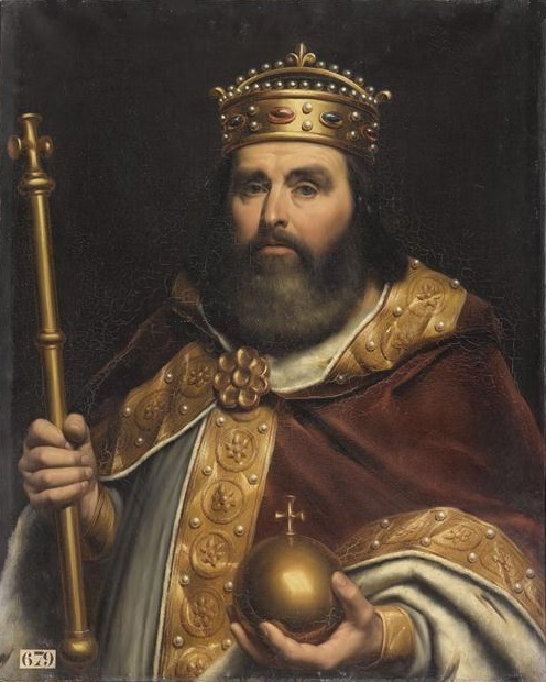 Portraits of Kings of France is a serie of portraits commissioned between 1837 and 1838 by Louis Philippe I and painted by various artists for the Musée historique de Versailles.